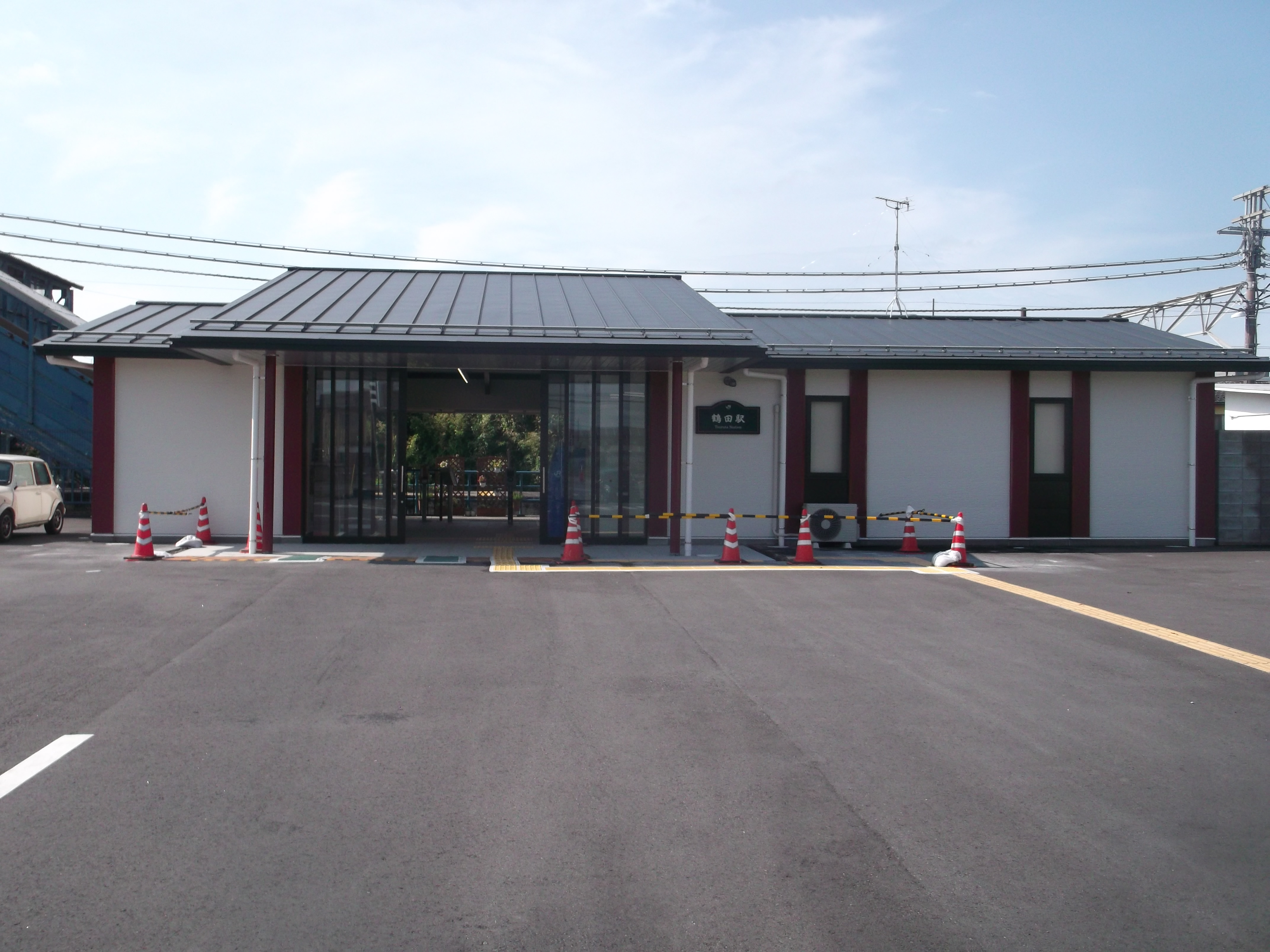 Tsuruta Station on the Nikko Line